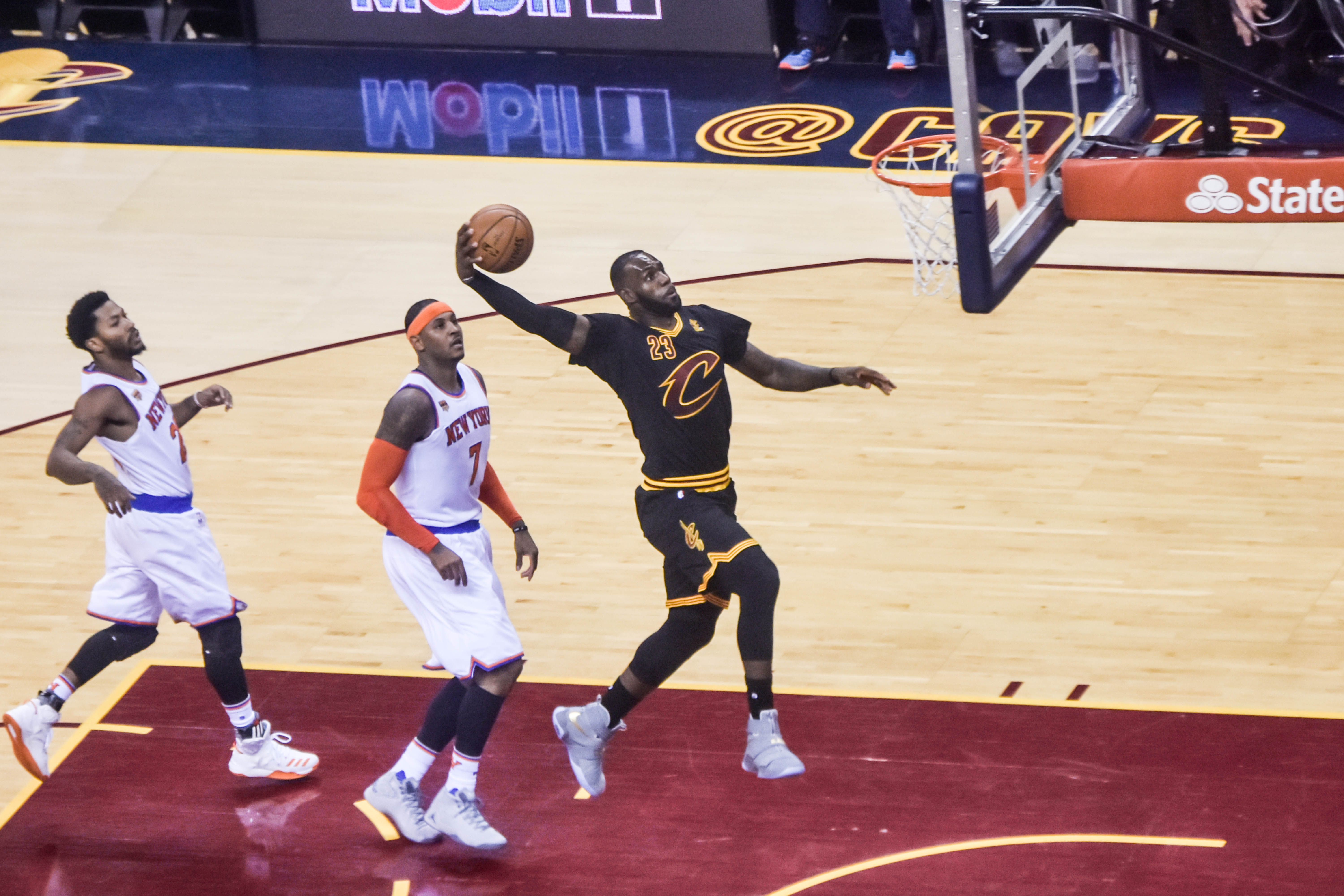 Lebron dunking